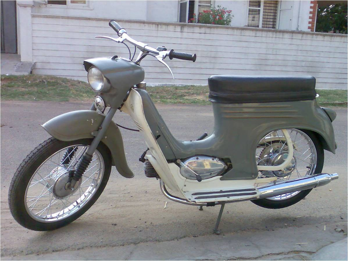 Yezdi Jet 50 Manufactured by Ideal Jawa, Mysore